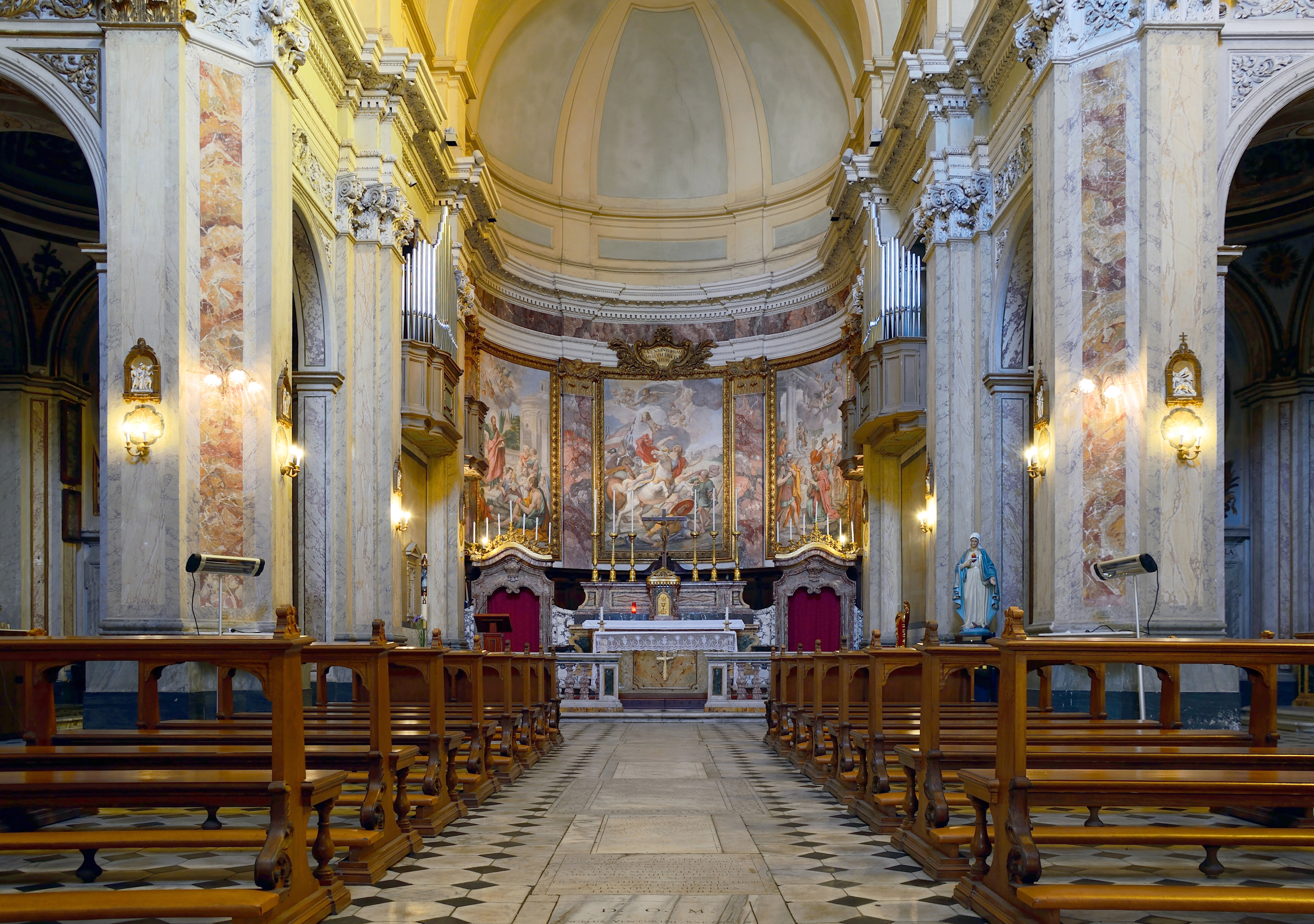 San Paolo alla Regola (Rome) - interior